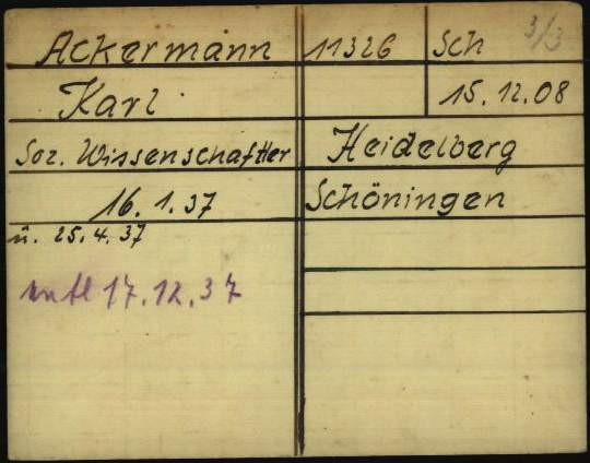 Registration card of Karl Ackermann as a prisoner at Dachau Nazi Concentration Camp.